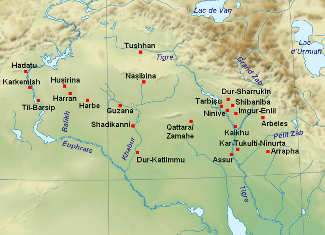 Map with the main cities of Assyria and Upper Mesopotamia during the medio-assyrian (ca. 1365-934 BC) and neo-assyrian period (ca. 934-609 BC).